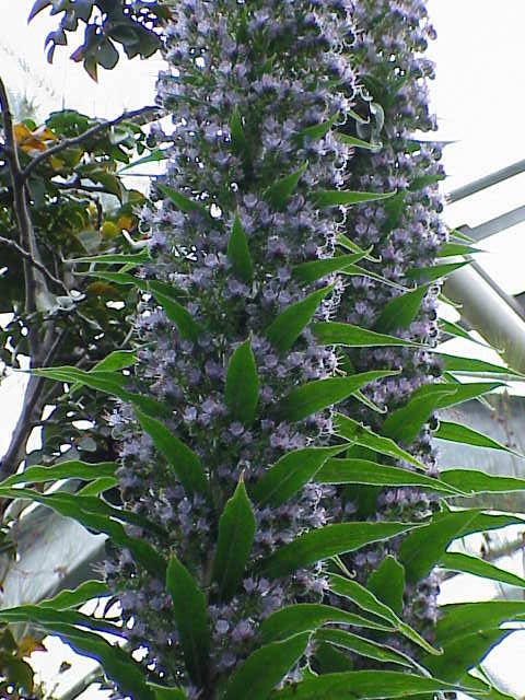 Species: Echium piniana Family: Boraginaceae Image No. 2